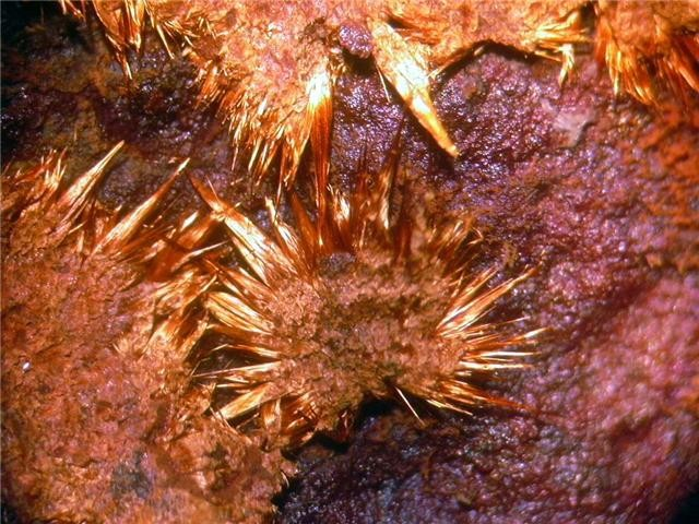 Ludlockite (FOV: 3 x 4 mm. aprox) Locality: Veta Negra Mine, Pampa Larga district, Tierra Amarilla, Copiapó Province, Atacama Region, Chile Original description: Lovely spindle-shaped aggregates of orange brown Ludlockite: xls are about 3 mm. across. This is a relevant find considering how rare is this mineral, which is not from a slag locality. Foto & Collection: A. Molina / M. Dini Many thanks to T. Kampf (Curator of Los Angeles NHM) how has identified the specie, and to Dr. Uwe Kolitsch (Curator of NHM of Viena) and J. Schluter (Curator of Hamburg Mineralogical M.), who both played a significant role in preliminar analysis.